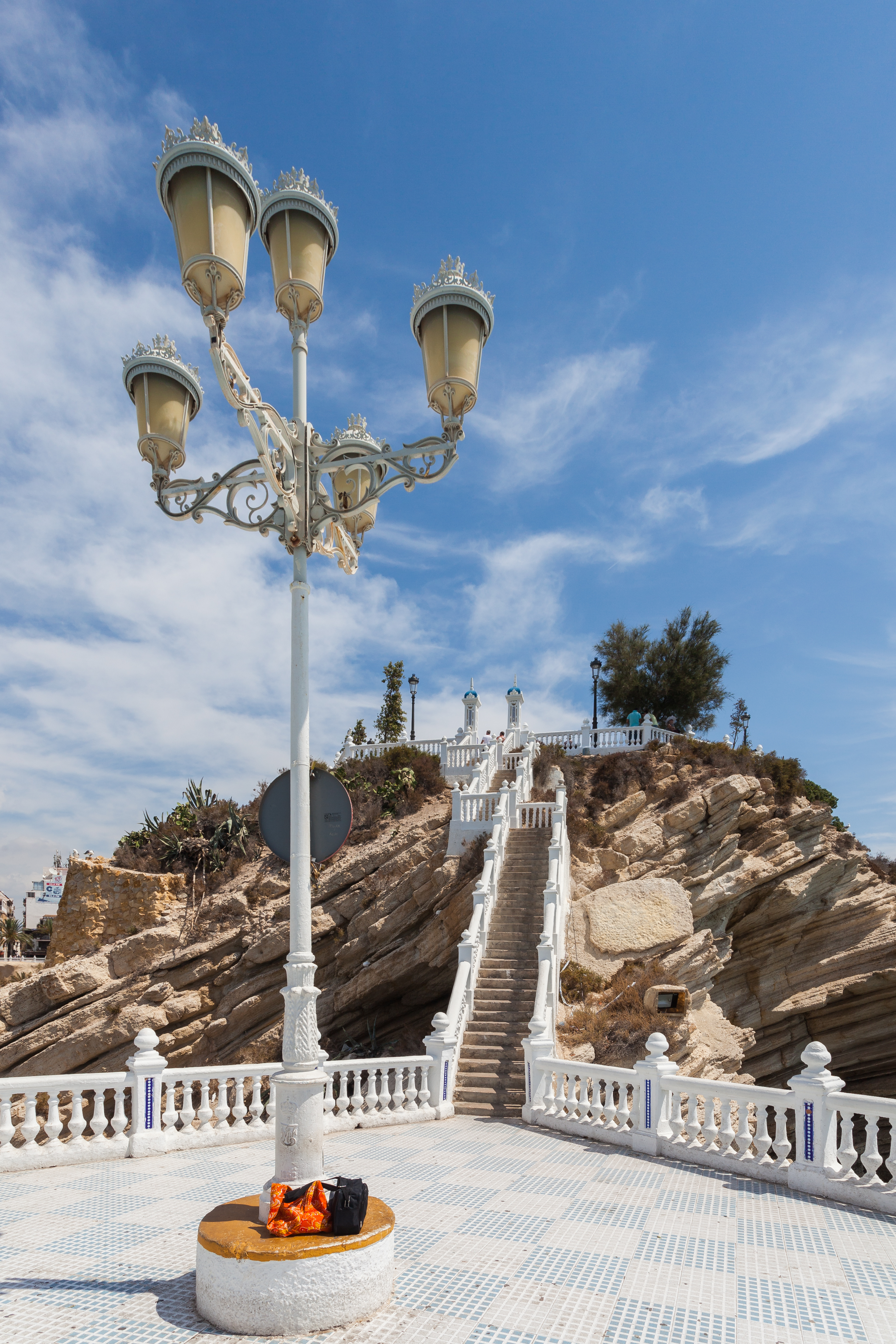 Balcón del Mediterráneo, Benidorm, Spain